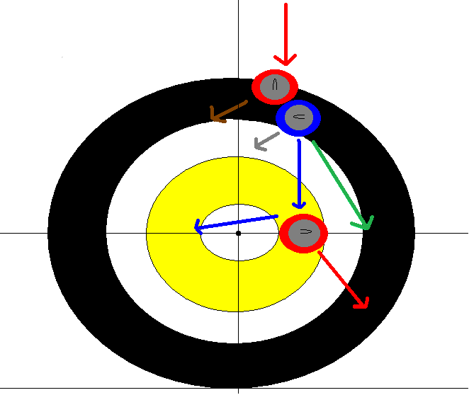 L'effet à traîner